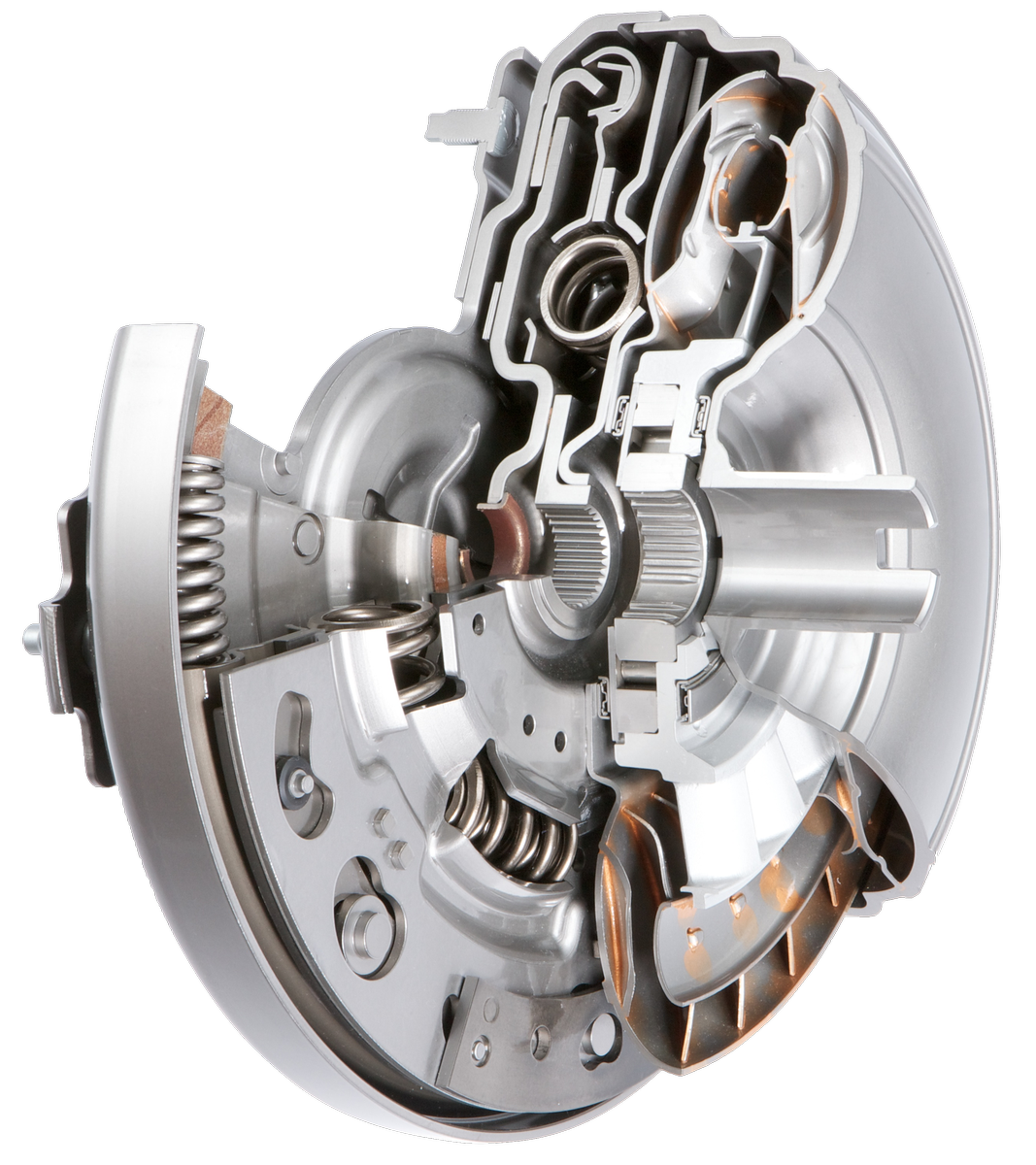 Photo of a sectioned model of a rear wheel drive torque converter with a centrifugal pendulum absorber in a series spring damper.